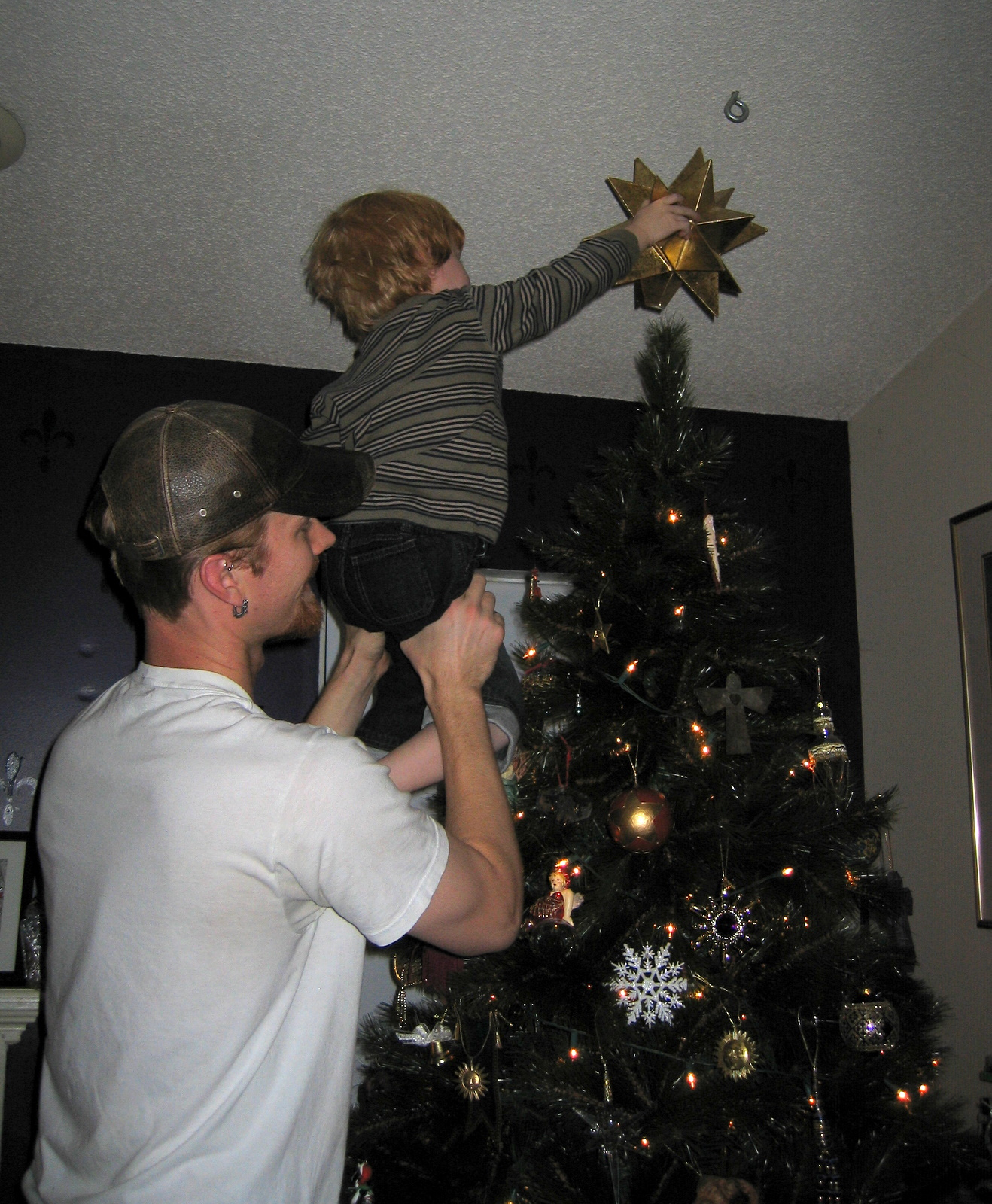 Placing the star on the top of the Christmas tree